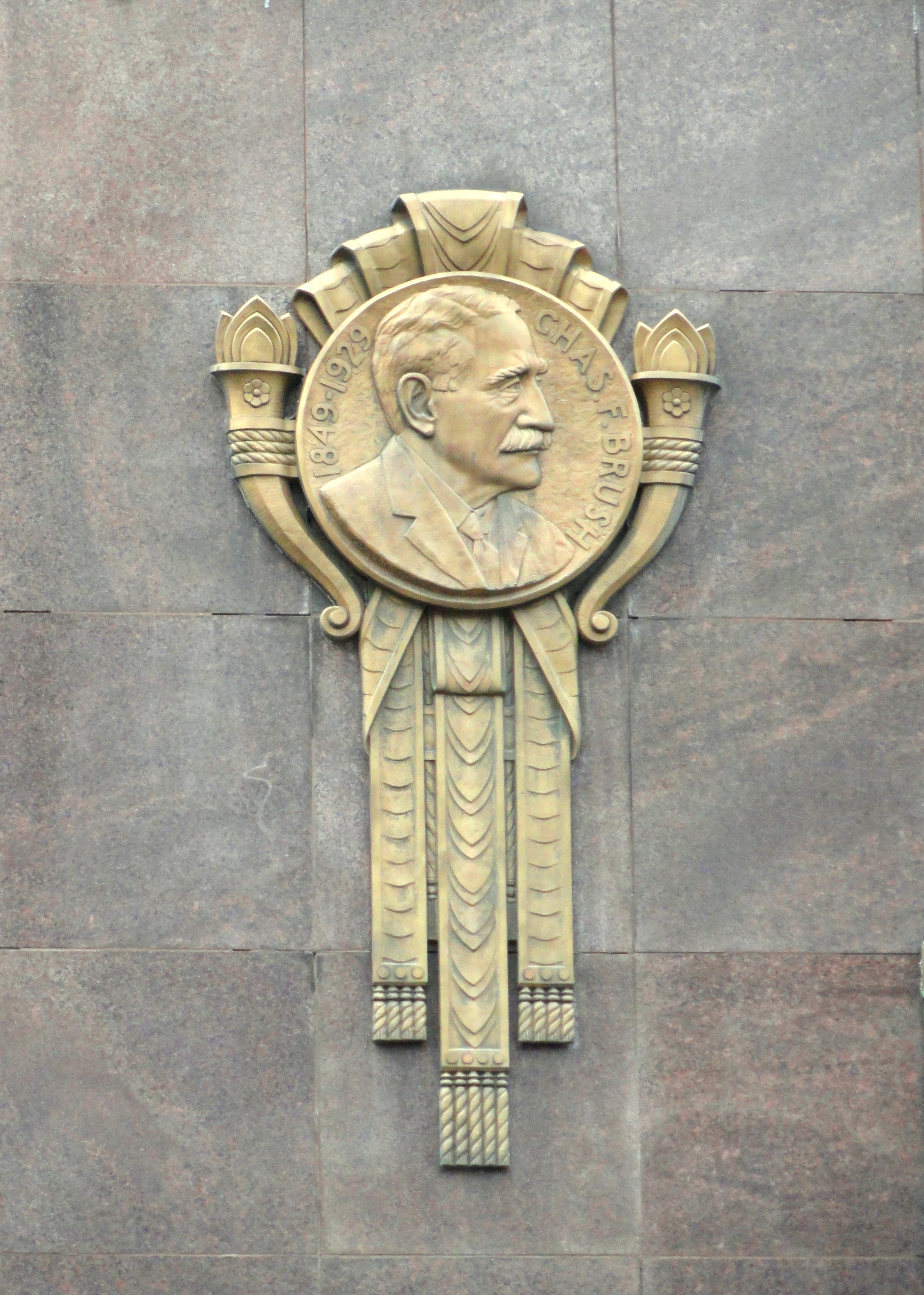 Cleveland Arcade, Cleveland, Ohio, USA. This artwork is in the public domain because the artist died more than 70 years ago.